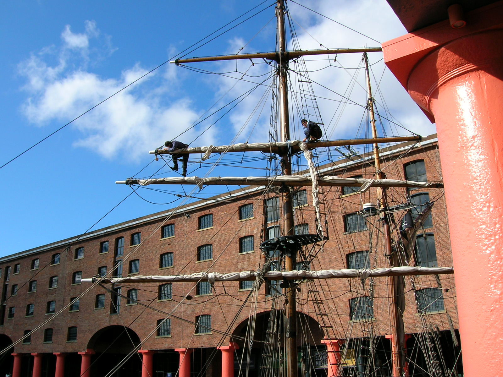 Albert Dock, Liverpool